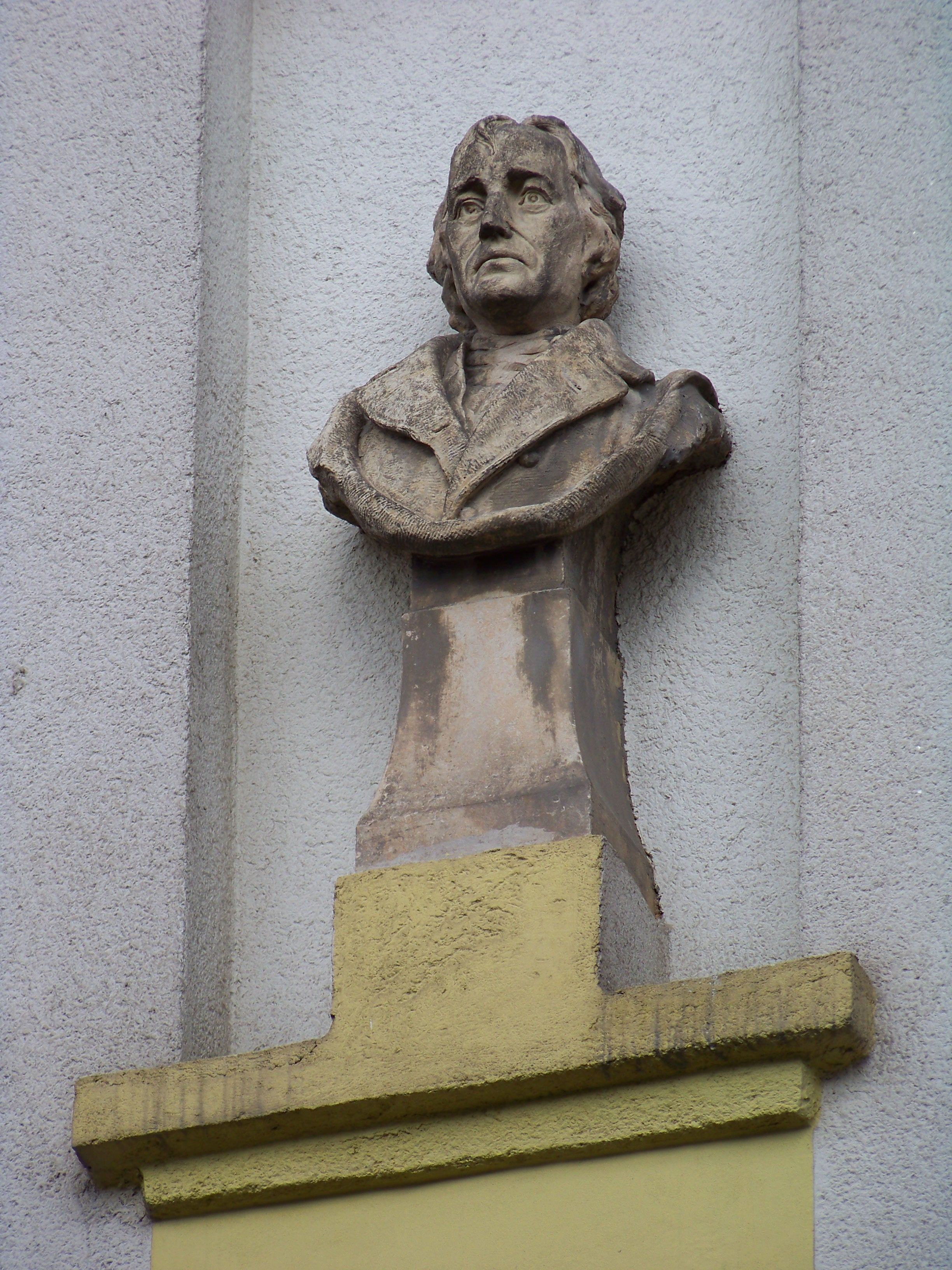 Beroun, Beroun District, Central Bohemian Region, the Czech Republic. Plzeňská Street, the elementary school, a bust of Jungmann (?).